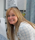 Bo Derek, American film actress and model visiting a VA hospital in Los Angeles, California